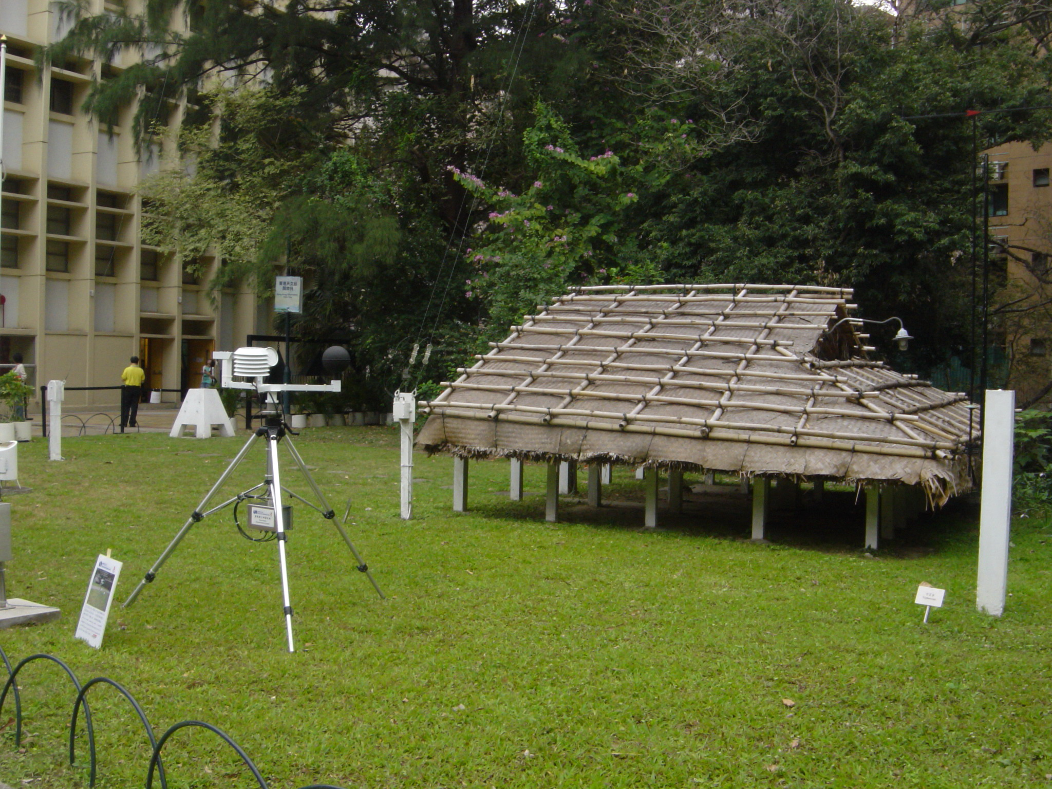 Open Day 2007 of The Hong Kong Observatory Headquarters. Meteorological Instruments.